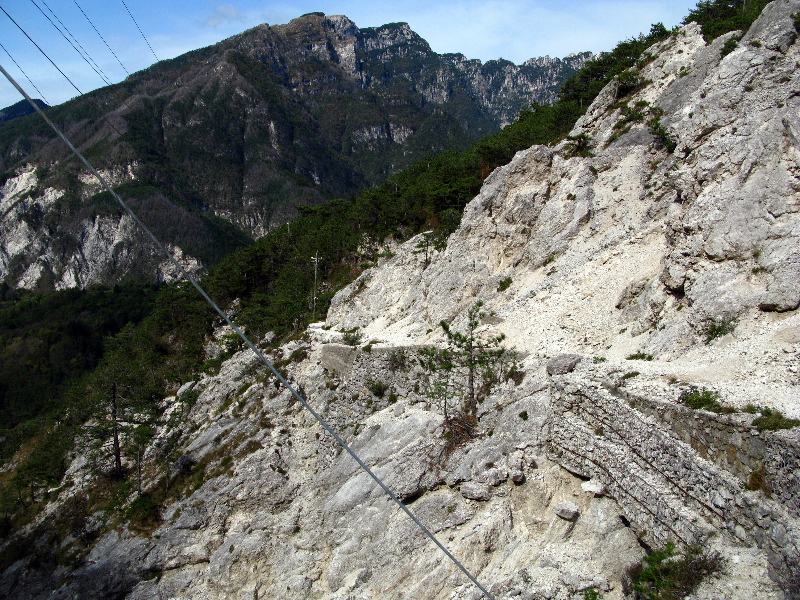 Mulish trail to the remote mountain villages Moggessa di Qua and Stavoli near Moggio Udinese (Canal del Ferro / Friuli-Venezia Giulia / Italy / EU).